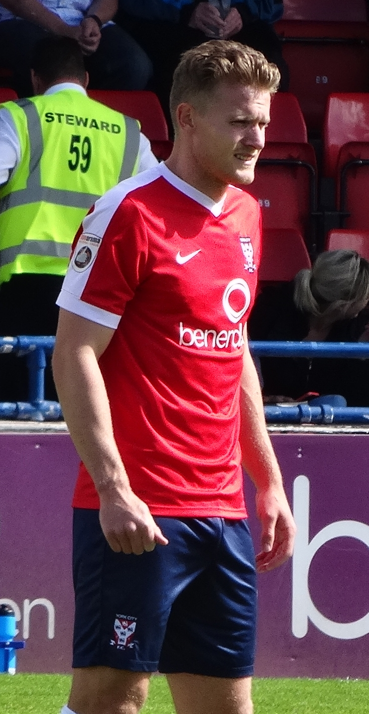 Yan Klukowski playing for York City against Boreham Wood at Bootham Crescent, York on 13 August 2016